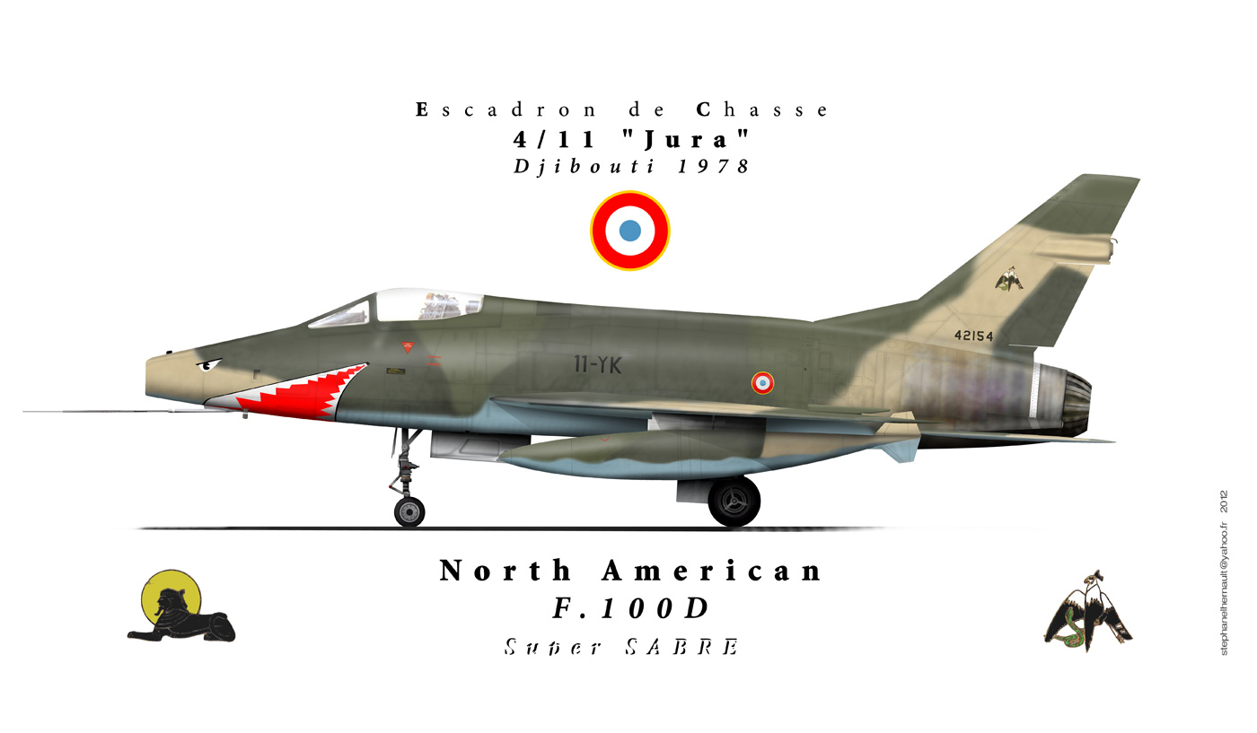 North American F-100D, EC 4/11, French Air Force.